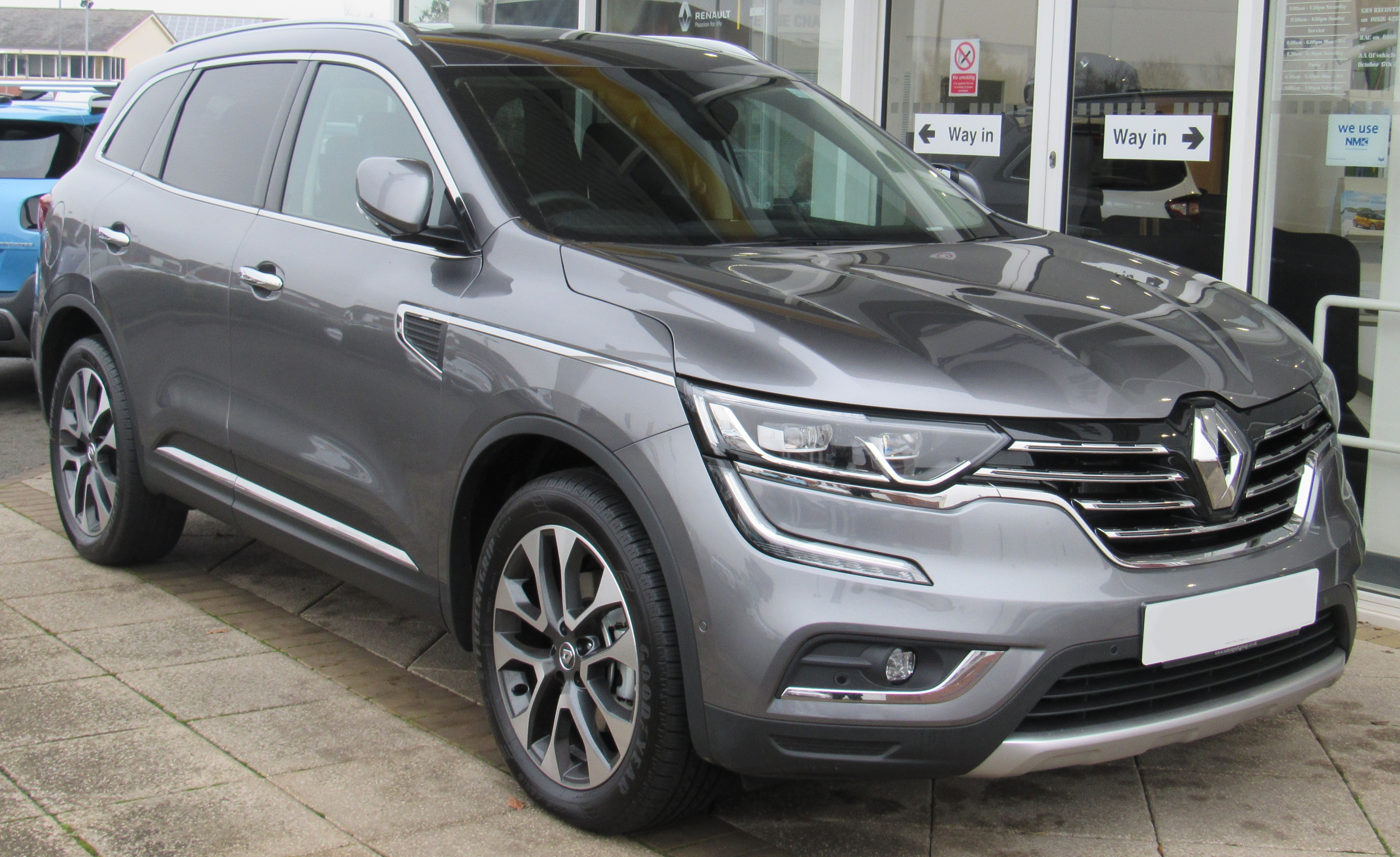 2017 Renault Koleos SIG NAV DCi 4X4 CV 2.0 Front Taken in Leamington Spa